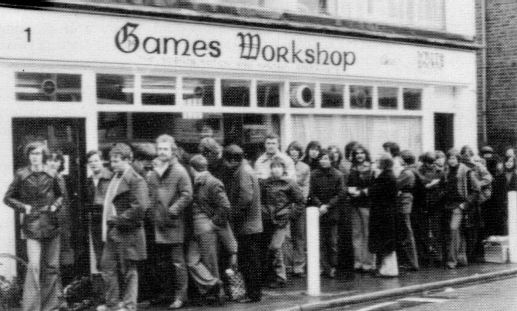 Gamesws1